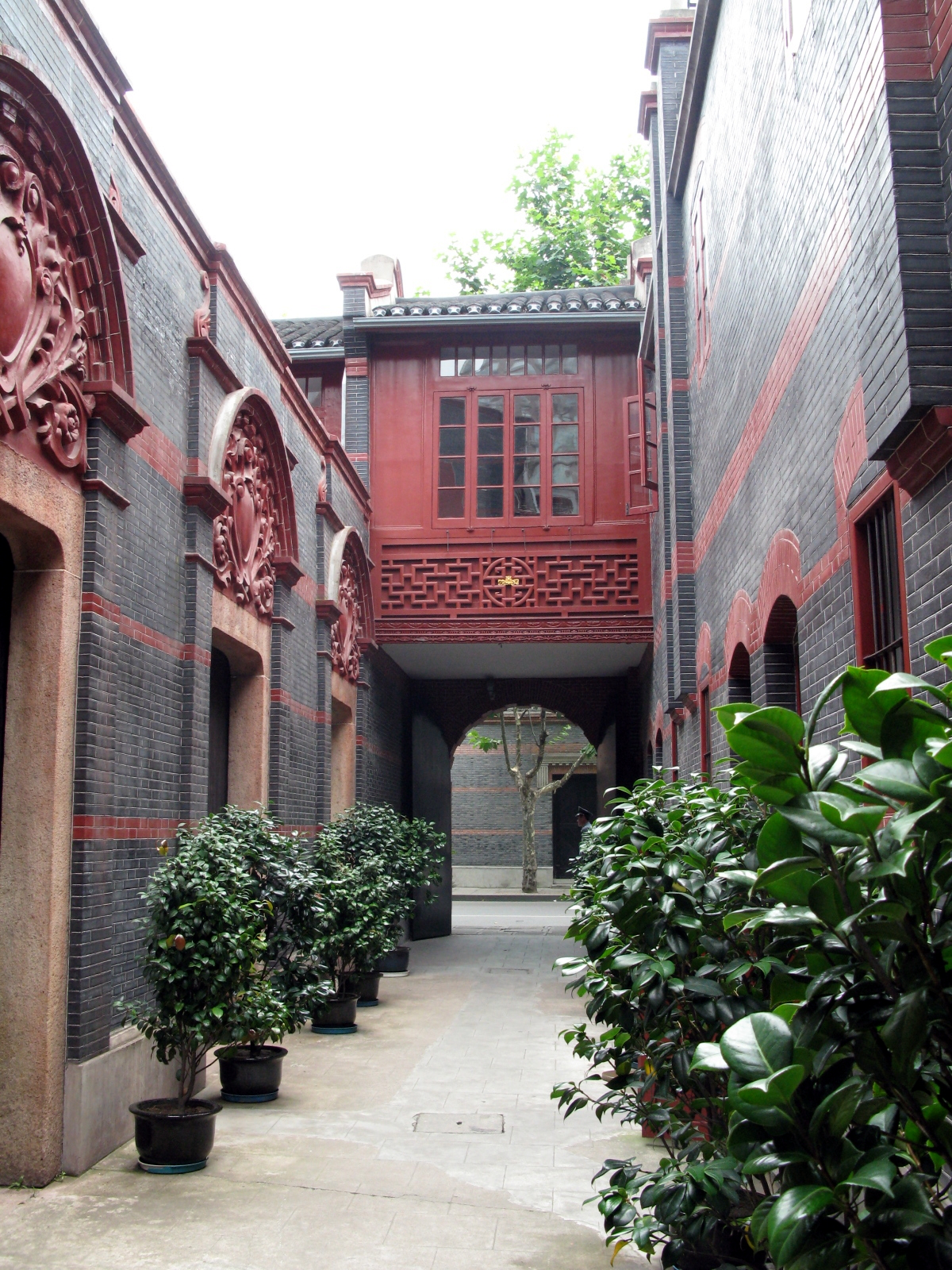 Memorial Site for First National Congress of the CPC Interior